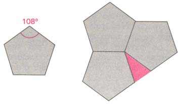 Three pentagons with a common vertex don't tile the plane